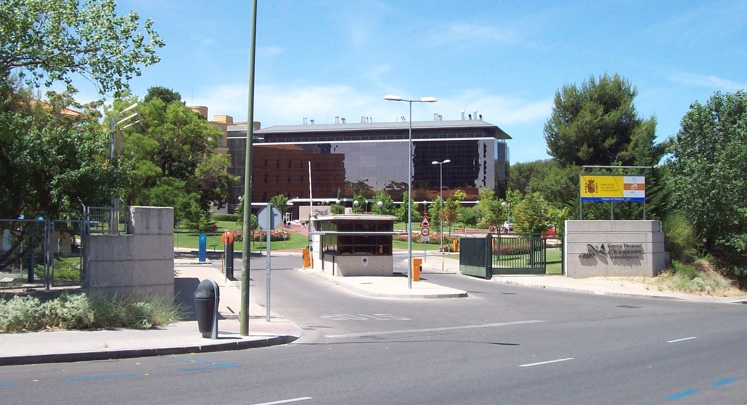 Headquarters of the Spanish National Cancer Research Centre (CNIO), at 3 Calle de Melchor Fernández Almagro (street) in Fuencarral-El Pardo district in Madrid.